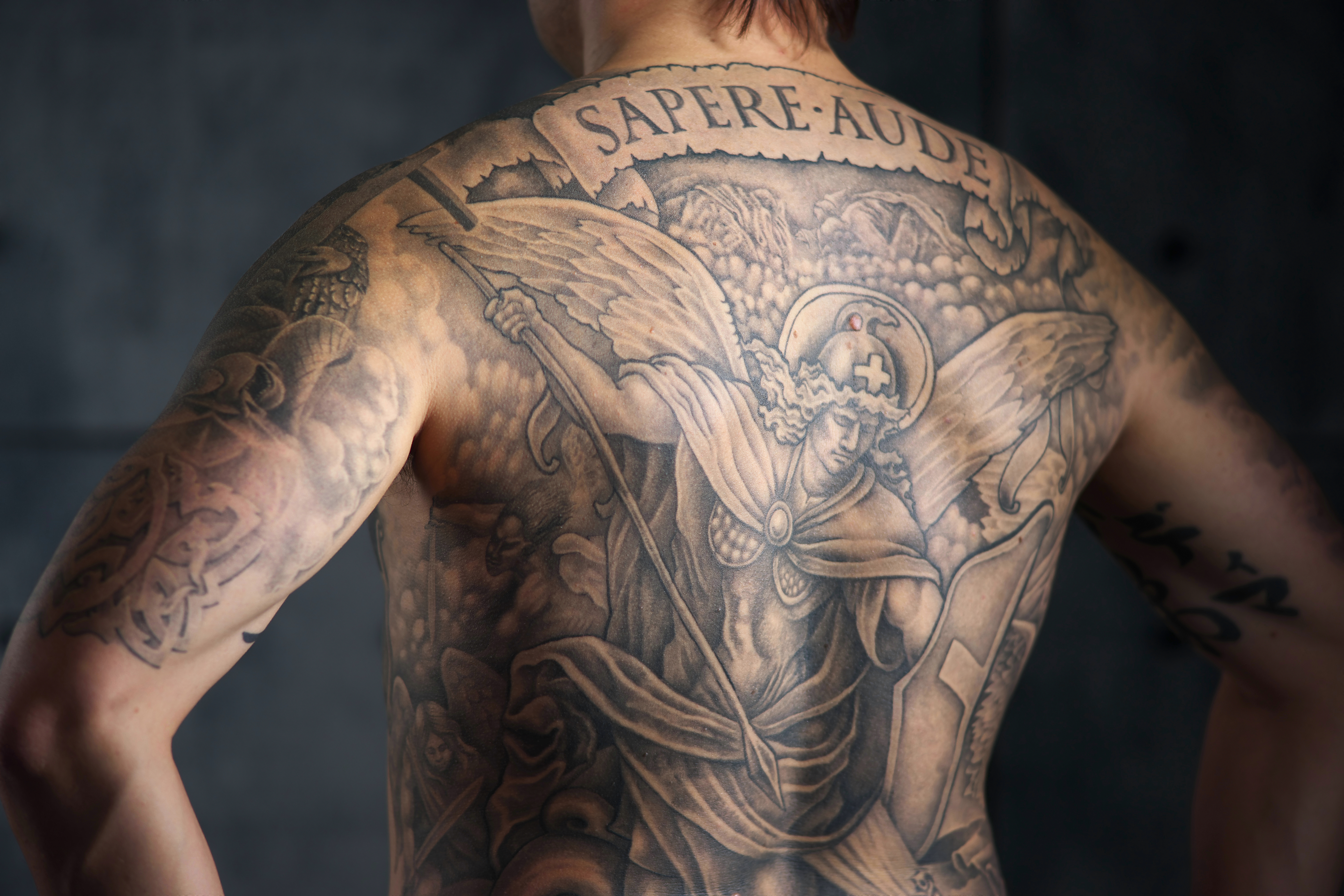 Man with a full back tattoo. Michael and the Dragon. Adapted from Die Bibel in Bildern (Revelation) engraving. Enlightenment motto "Sapere aude" is tattooed in the upper back.